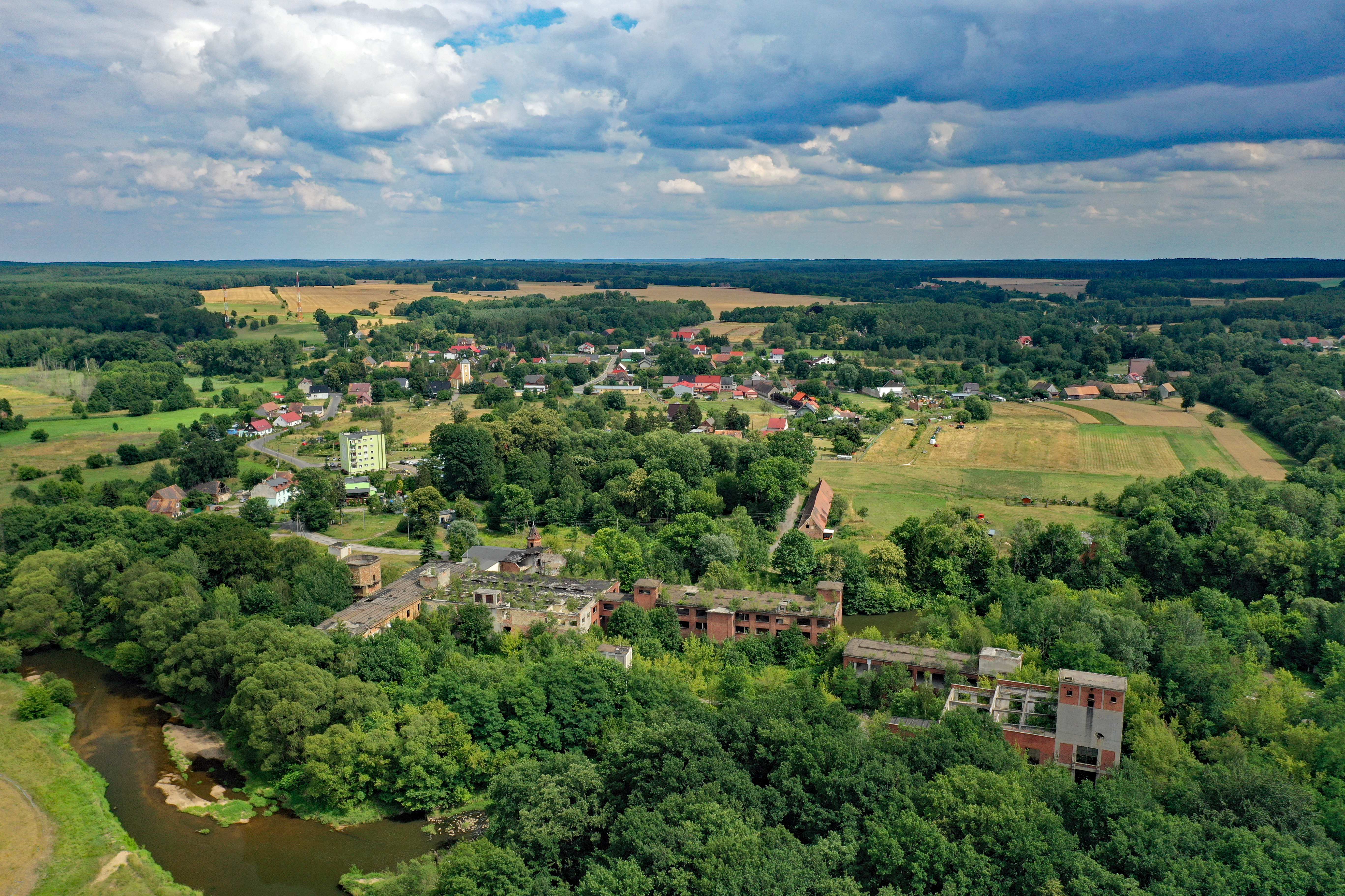 Former Kartonpapierfabriken AG Groß Särchen in Zarki Wielkie (Poland)